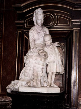 Photo of the statue of Felicitas Guerrero and son Felix, made by sculptor Antonio Pasaglia in 1876